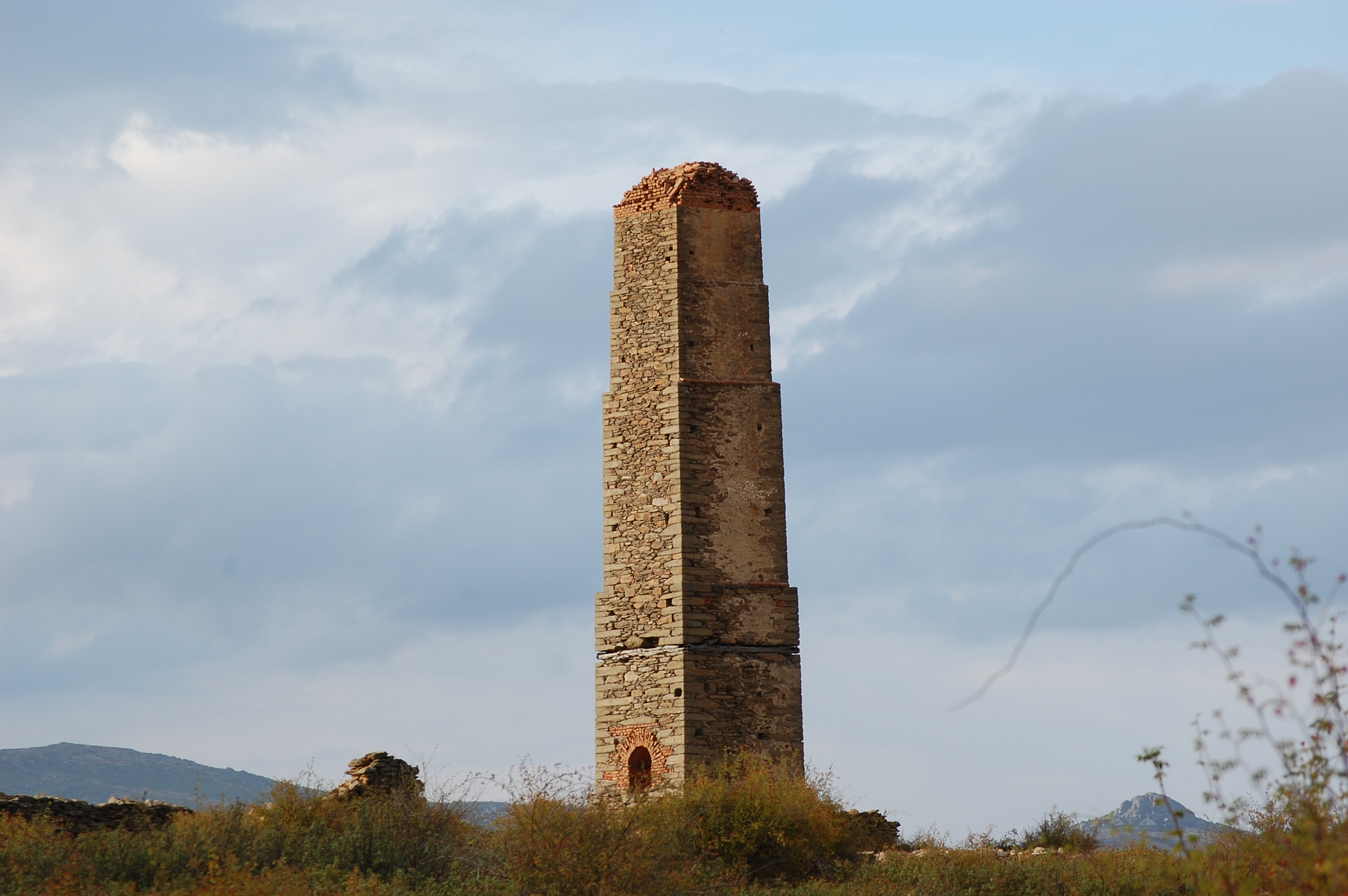 Ventilation chimney Hiendelaencina.